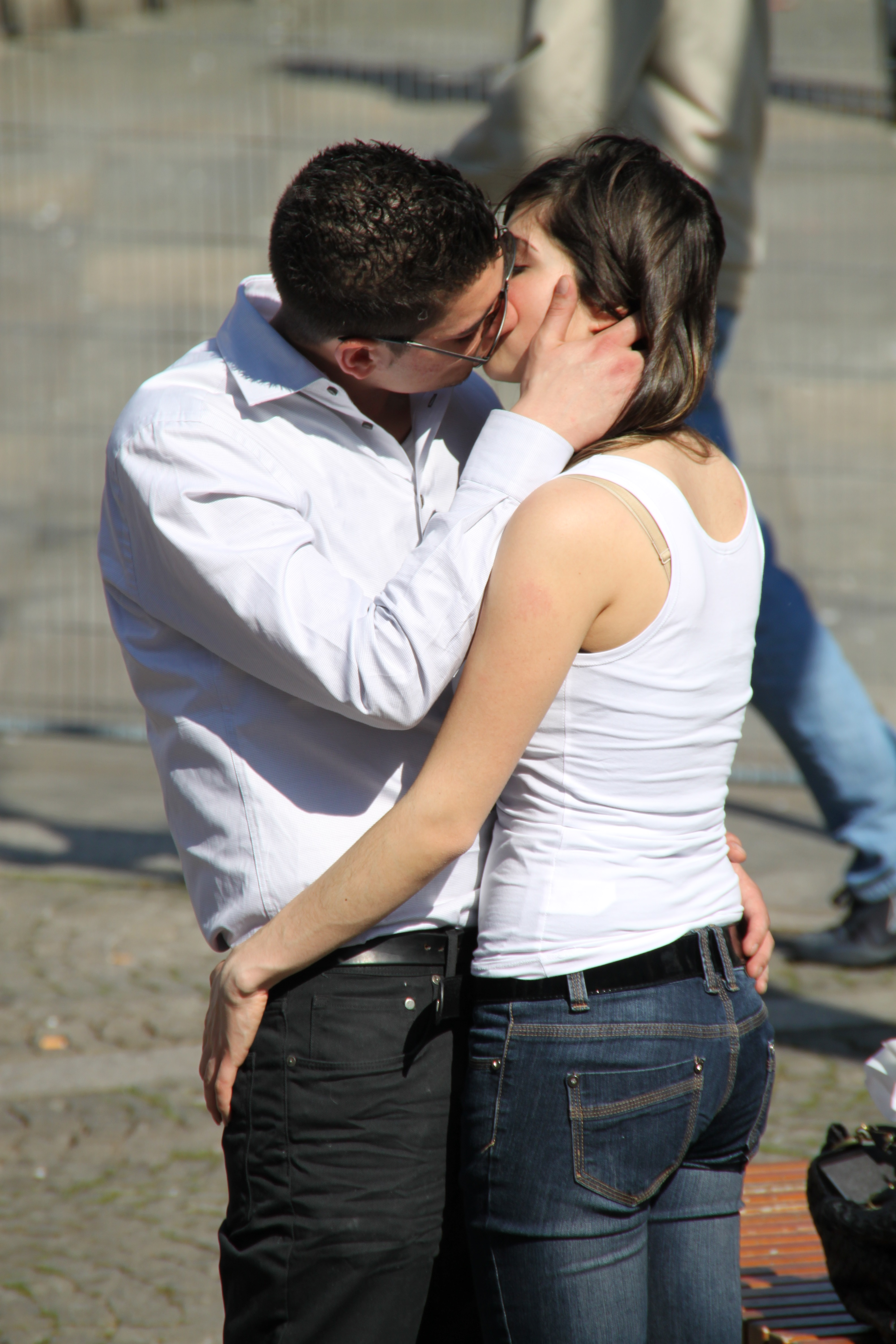 Couple kissing in Cologne, Germany.